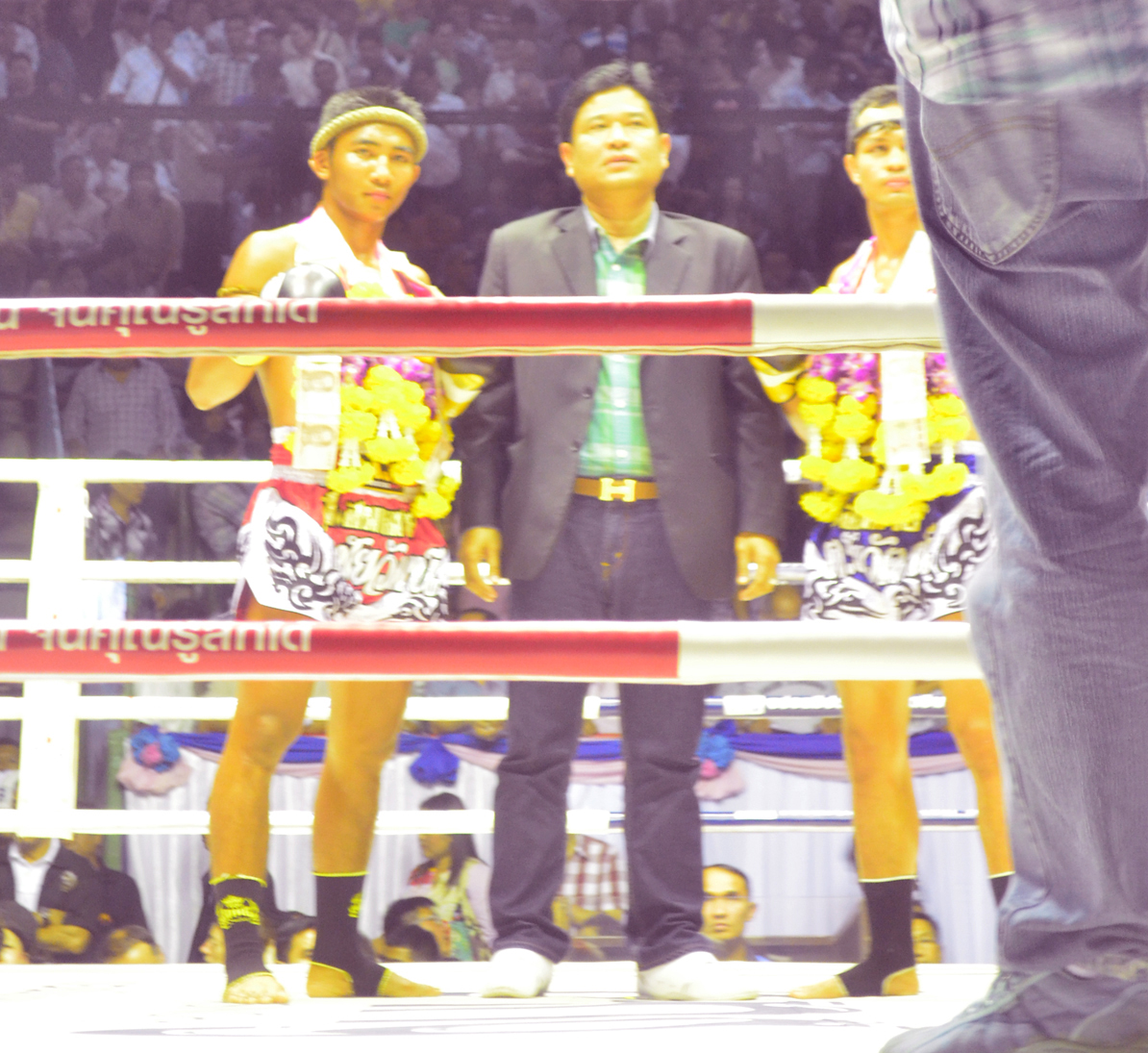 Thanonchai & Rungrat